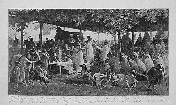 Treaty of Traverse des Sioux, Minnesota, July 23, 1851 [Sioux]. From painting by Frank Barnell Mayer [sic: Francis (Frank) Blackwell Mayer], ca. 1881 - ca. 1885.